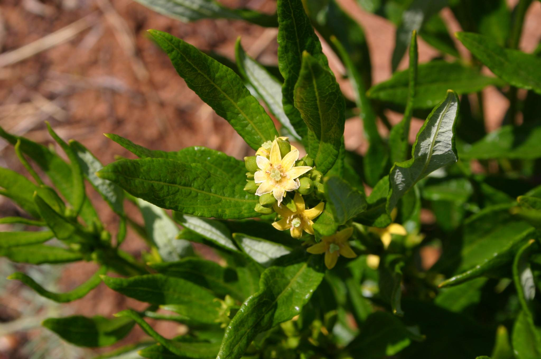 Flower and foliage of Fadogia homblei, Hamerkop, Magaliesberg, South Africa